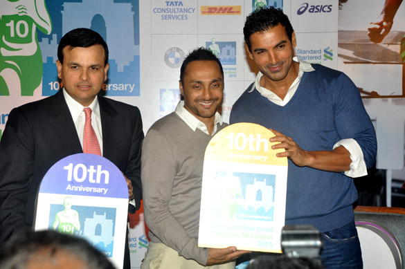 John Abraham, Rahul Bose at the Press conference of Standard Chartered Mumbai Marathon 2013 01